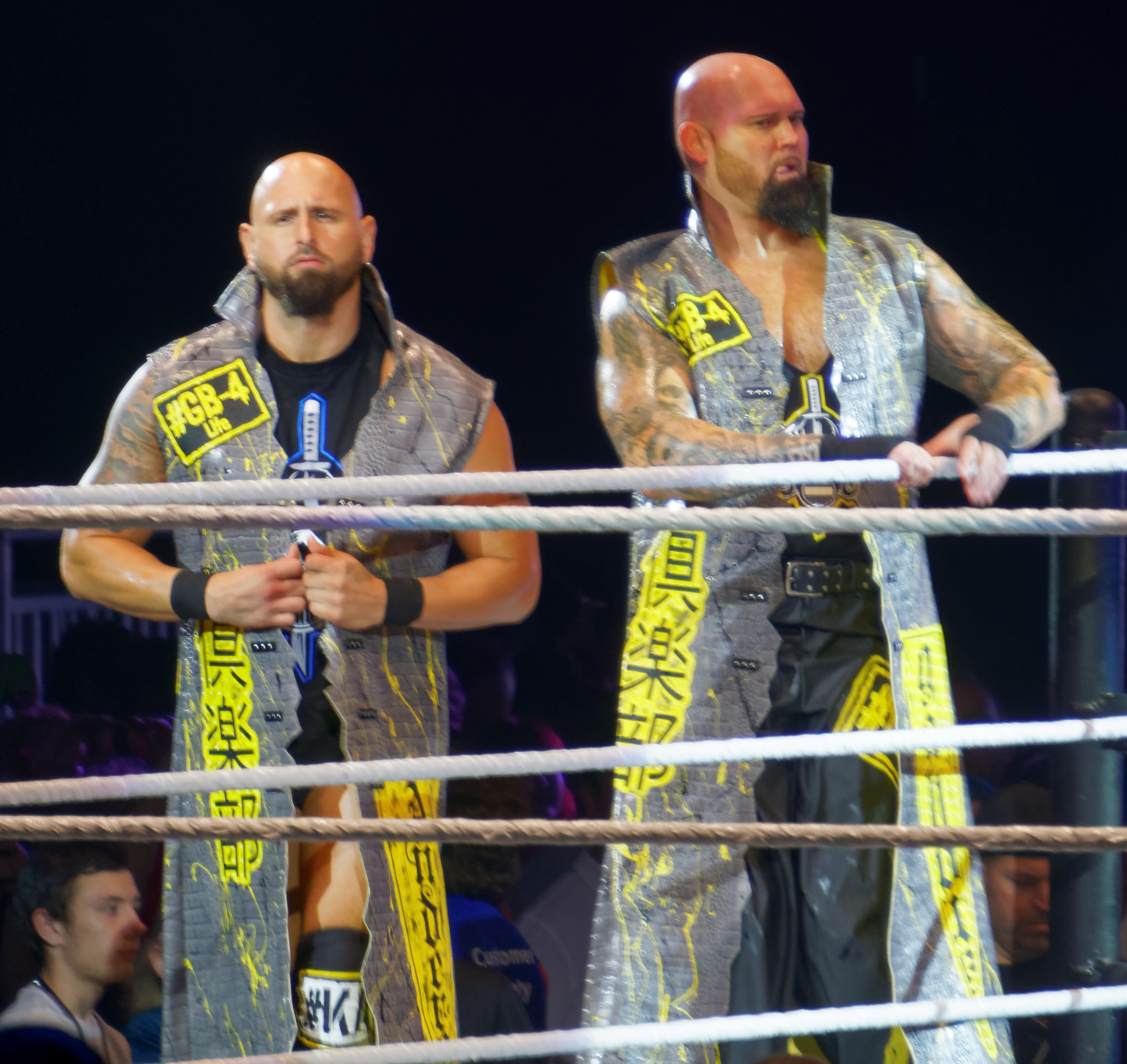 Karl Anderson & Luke Gallows making their ring entrance at the 02 Arena for a one-night-only WWE Live in London on Wednesday, 7 Sept.